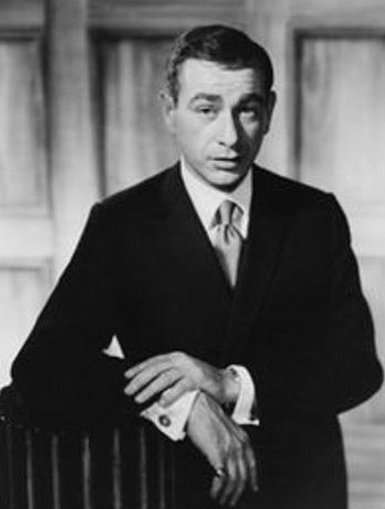 Publicity photo of Shelley Berman from The Steve Allen Show.